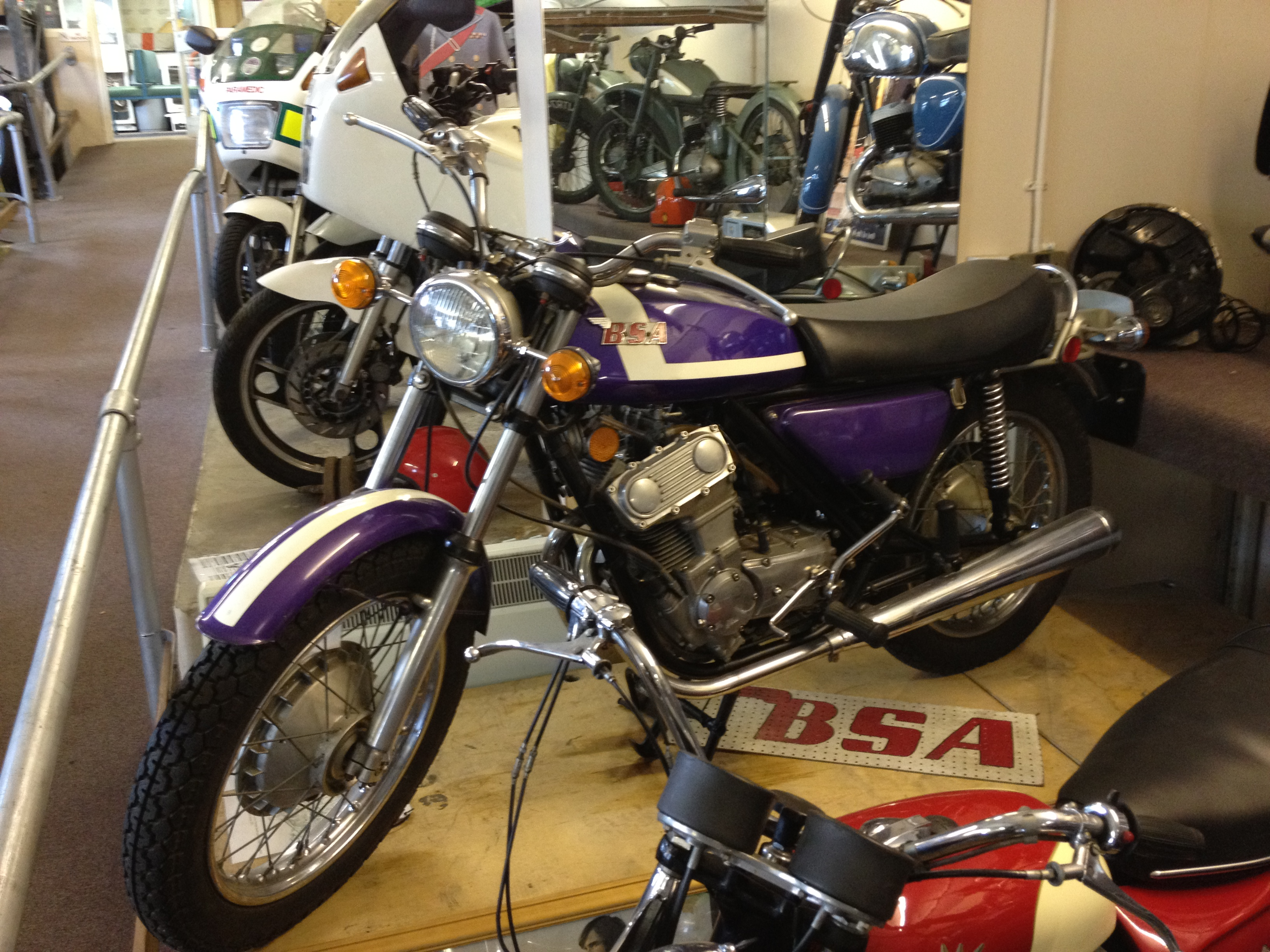 1971 prototype BSA Fury, a double overhead cam twin cylinder 350cc motorcycle, designed by Edward Turner and substantially re-worked for production by Bert Hopwood and Doug Hele. The model was not put into production due to the parent company's financial problems.